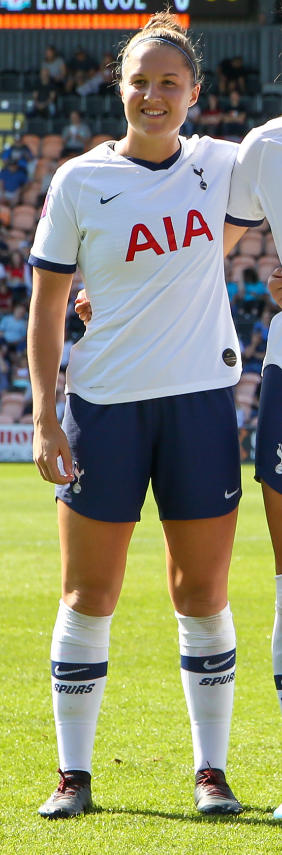 2019–20 FA WSL: Tottenham Hotspur FC Women v Liverpool FC Women, 15 September 2019 – Tottenham Hotspur starting line-up.